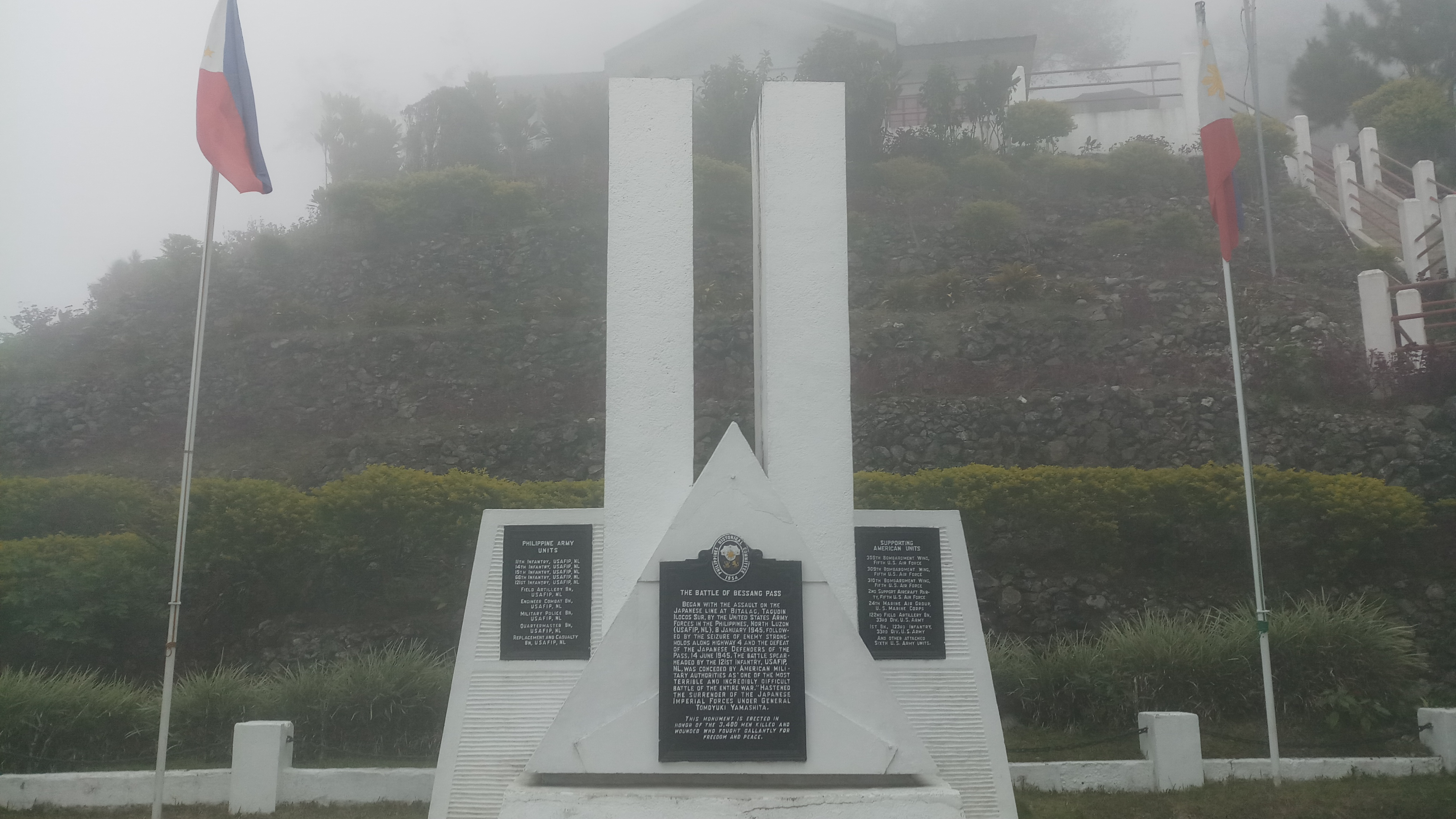 Monument honoring the fallen soldiers at Bessang Pass